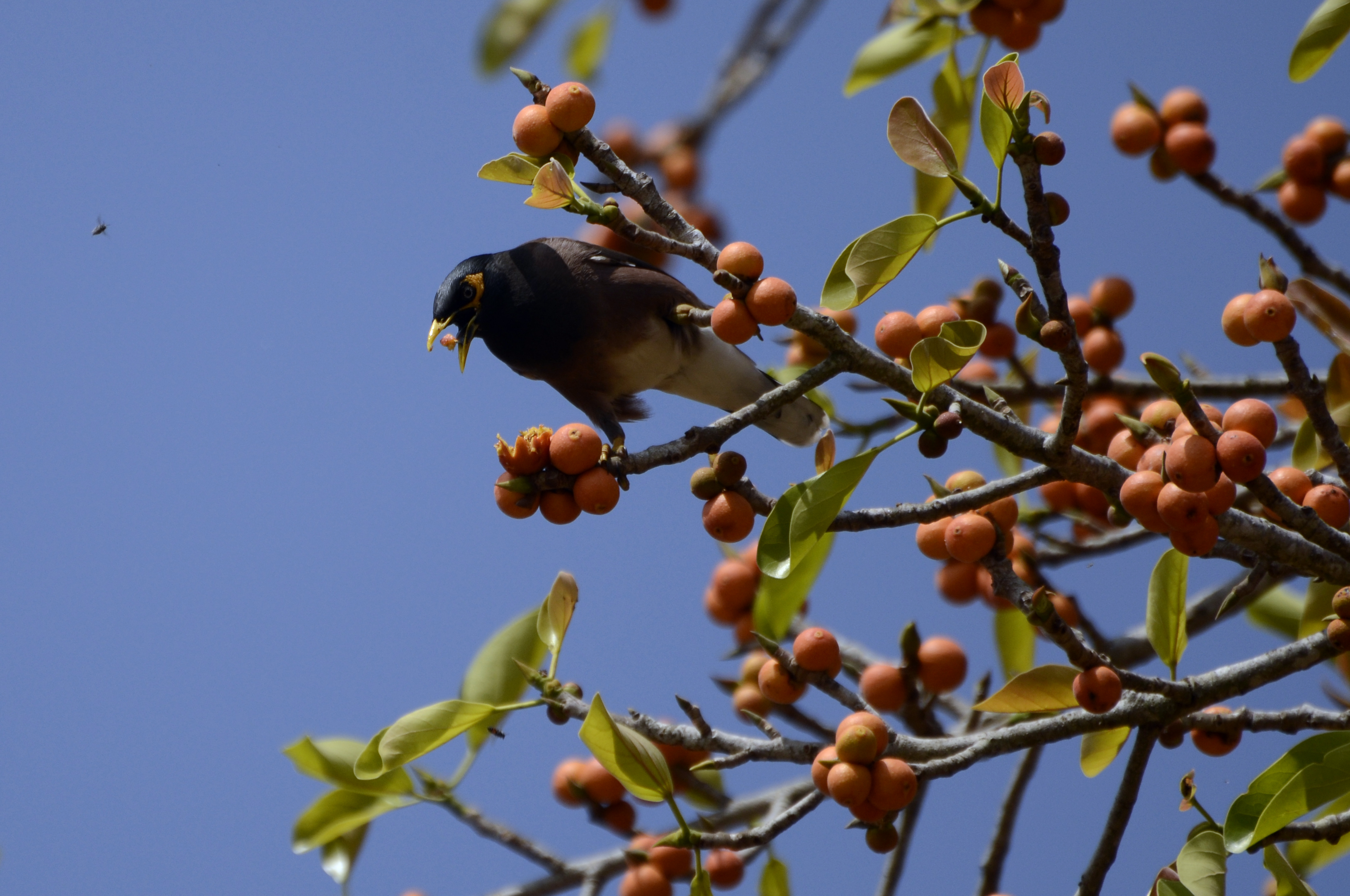 Common Myna in fruiting ficus in Karnataka